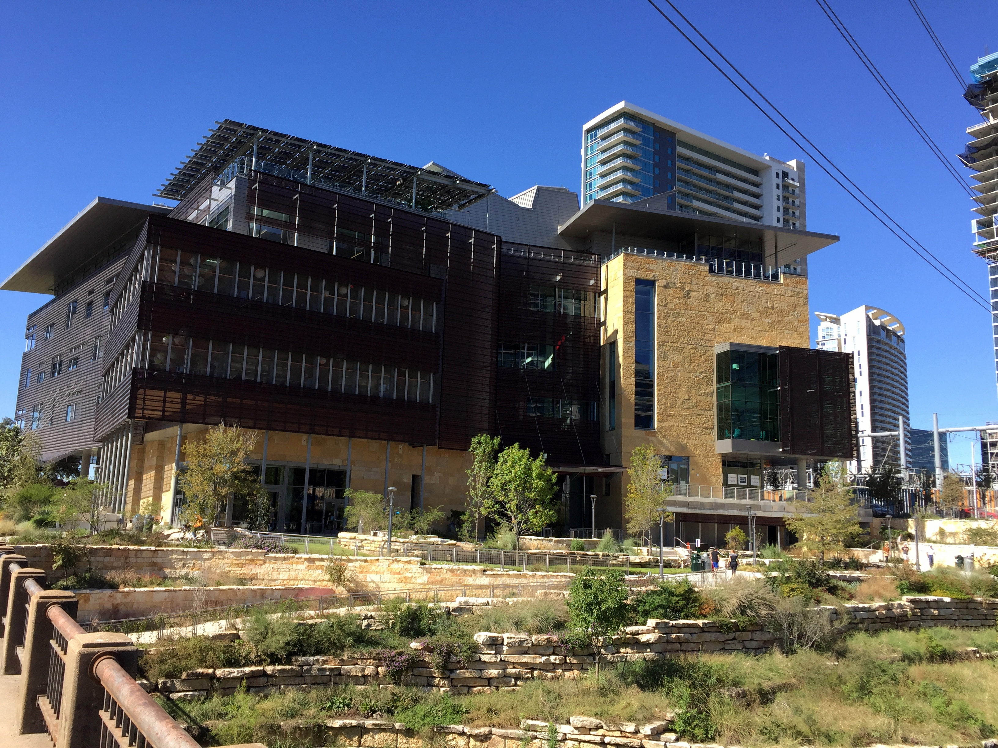 View of Austin, Texas' Central public library from Cesar Chavez.